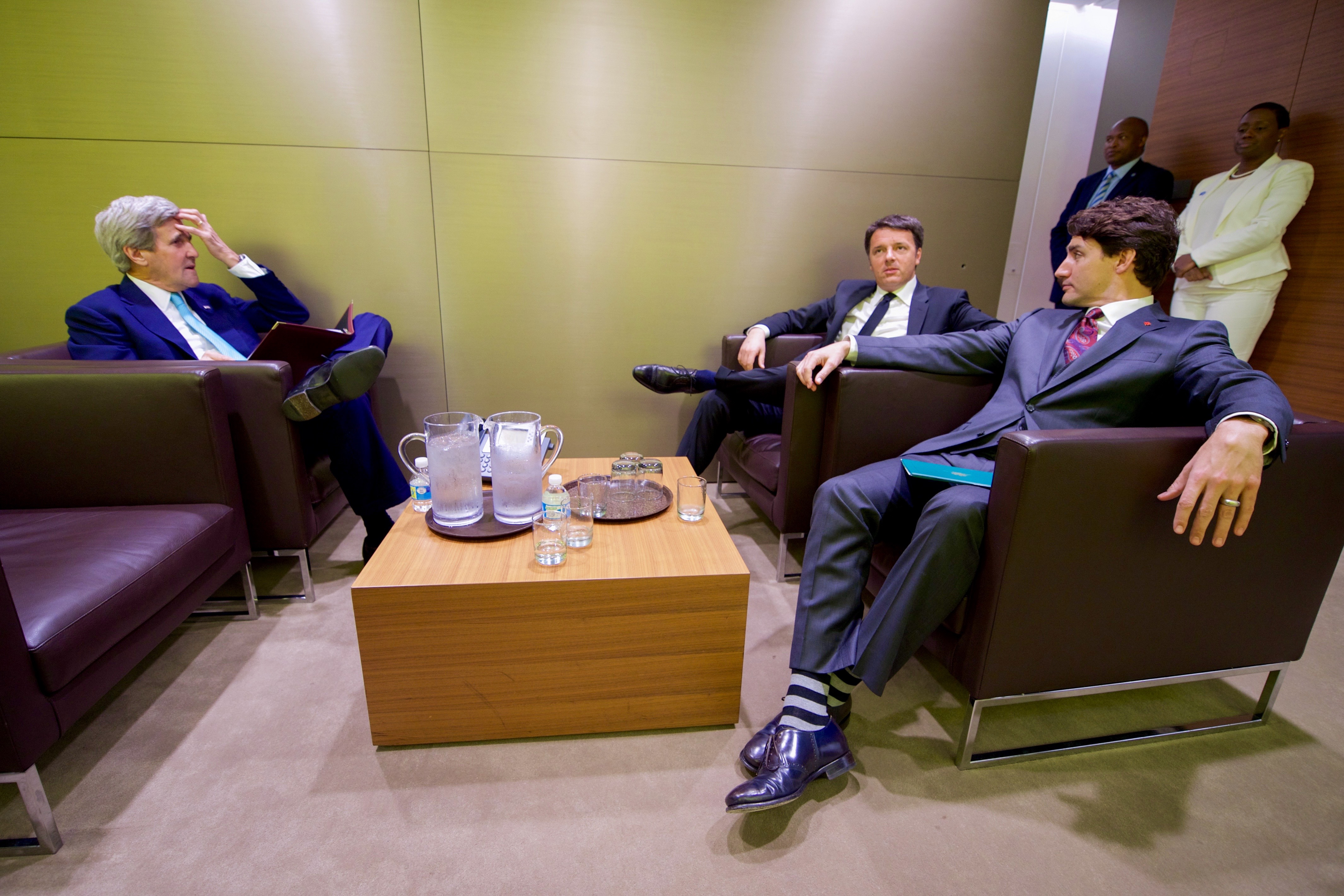 U.S. Secretary of State John Kerry sits backstage with Canadian Prime Minister Justin Trudeau and Italian Prime Minister Matteo Renzi before all three officials signed the COP21 Climate Change Agreement on Earth Day, April 22, 2016, at the United Nations General Assembly Hall in New York, N.Y. [State Department photo/ Public Domain]